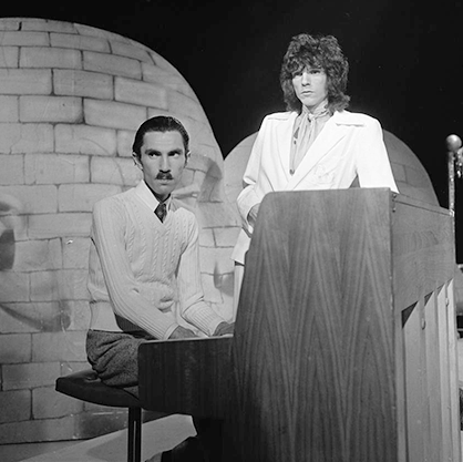 Sparks in AVRO's TopPop (Dutch television show) in 1974